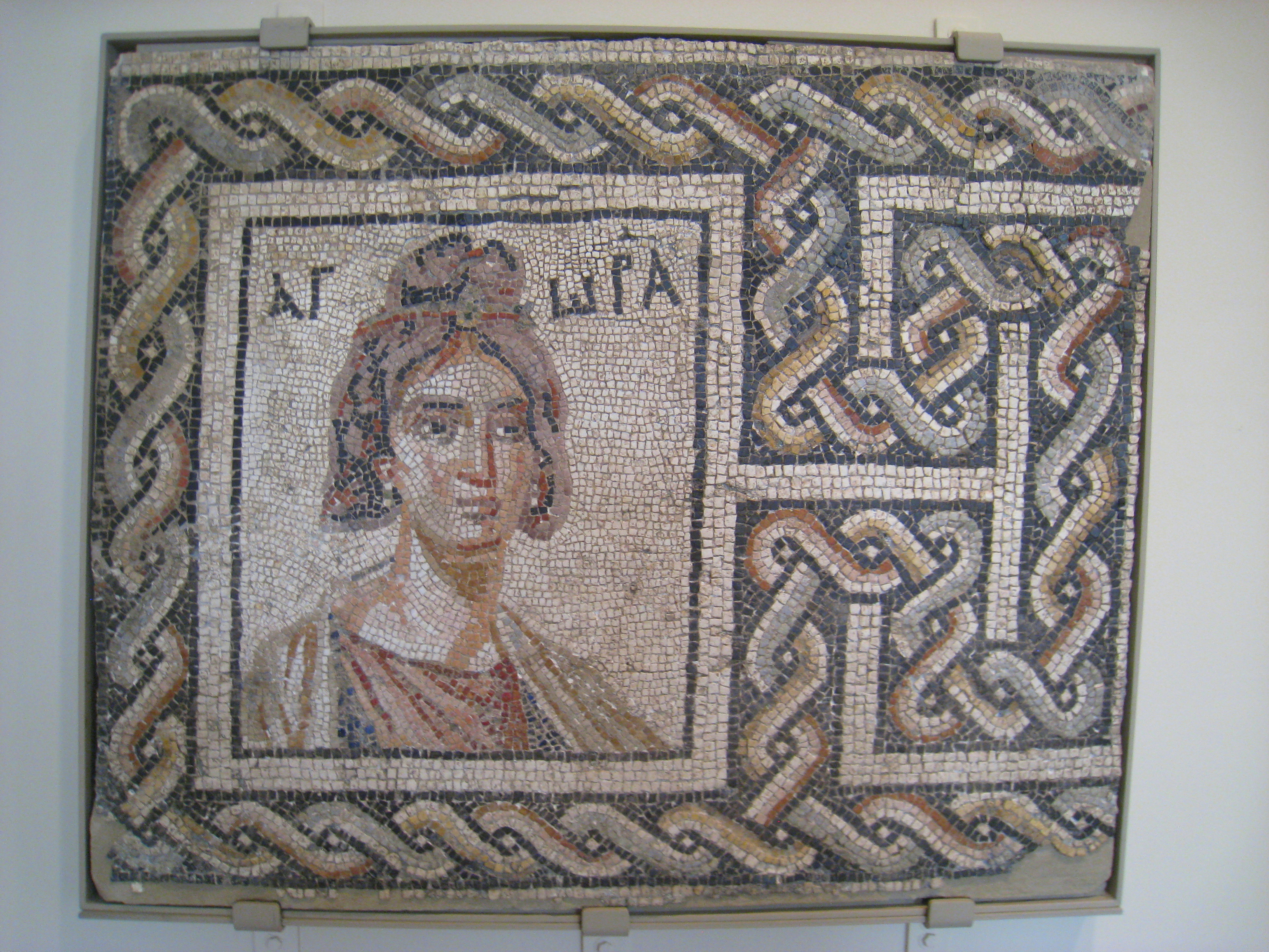 AGORA. Antioch mosaics in the Worcester Art Museum, Worcester, Massachusetts, USA. The museum permits photography and does not restrict usage of the photographs.